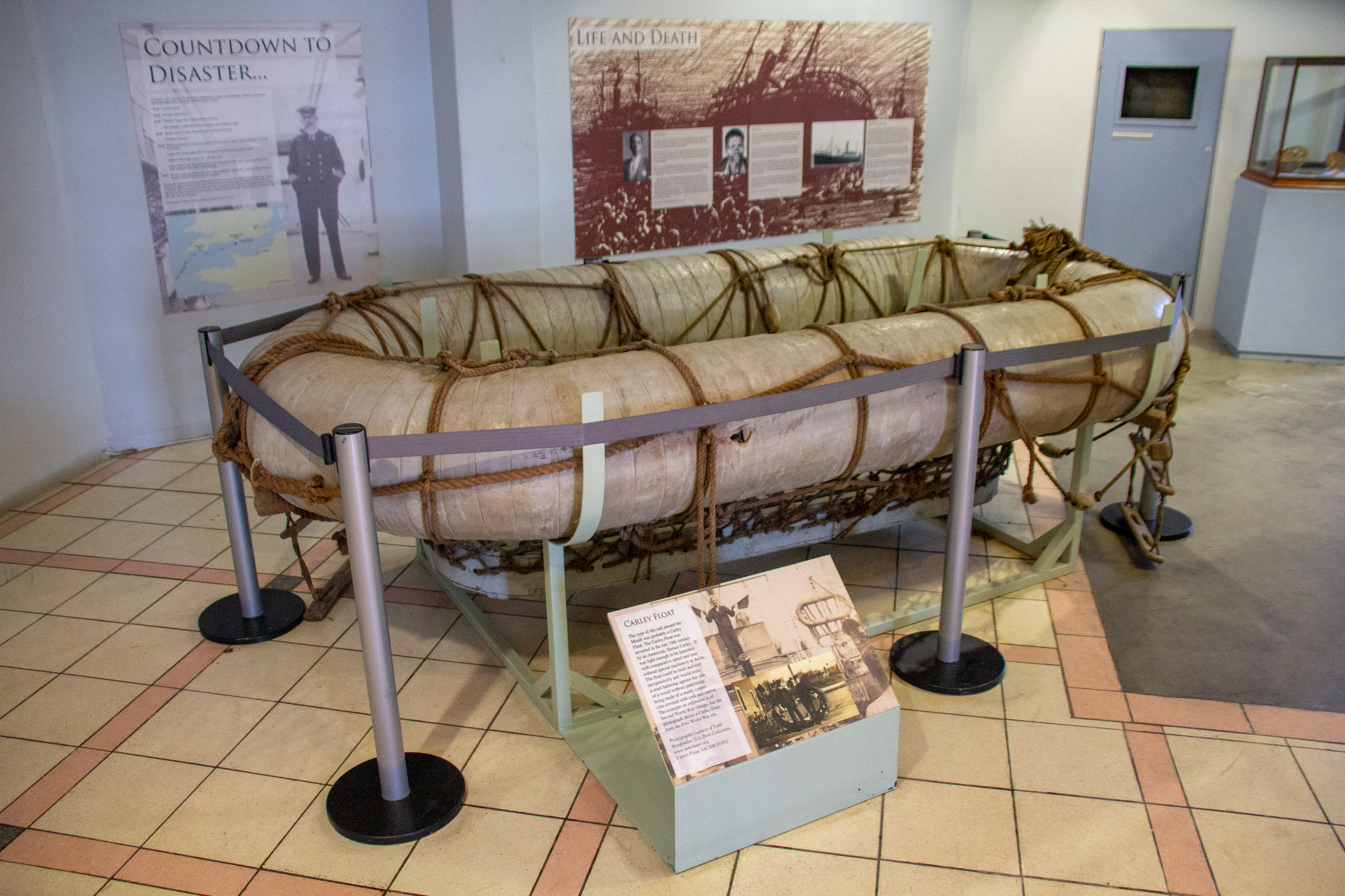 Cape Town